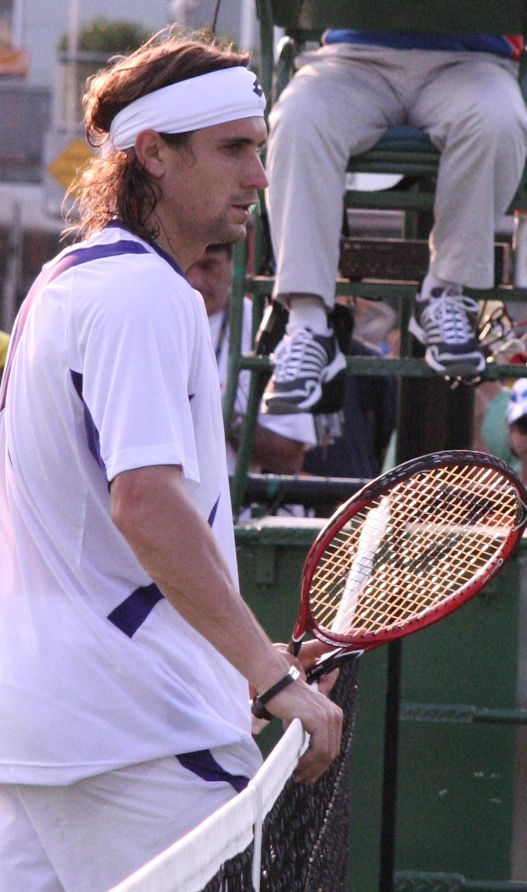 David Ferrer at their first-round match of the 2007 Australian Open.